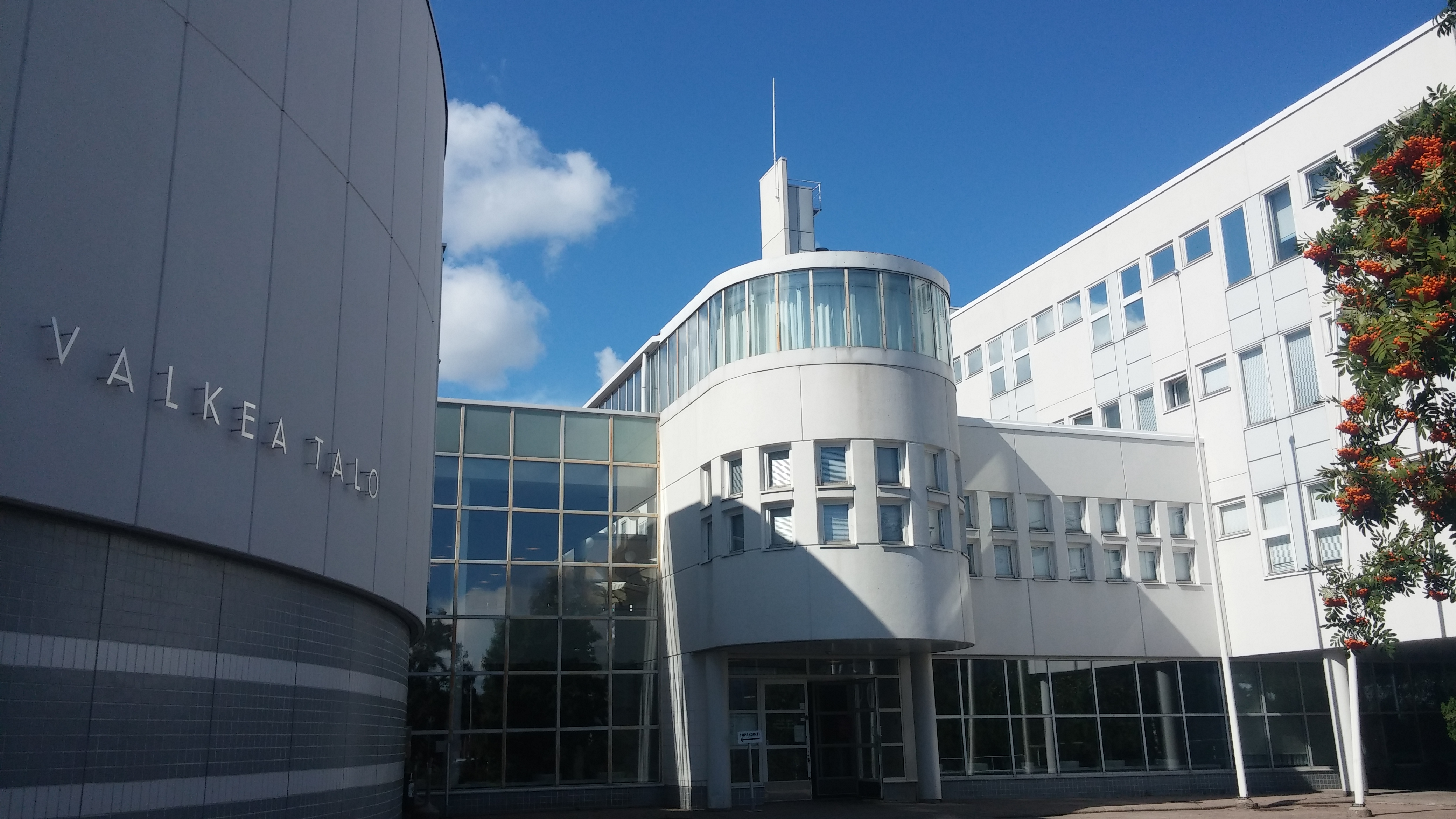 Valkea talo